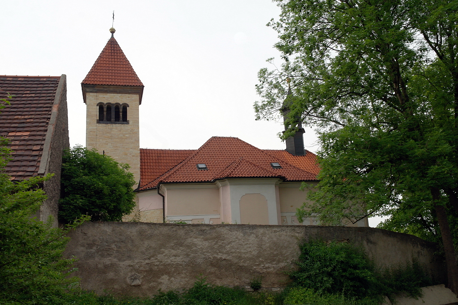 Church of Saints Peter and Paul, Řeporyjské square, Hasičů str., Prague-Řeporyje. View from the south.